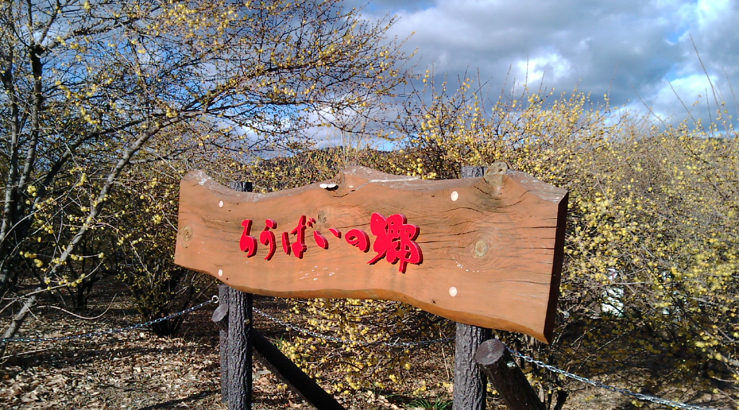 Chimonanthus praecox village (ろうばいの郷)